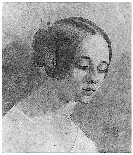 Alleged drawing of Virginia Clemm Poe Pencil on paper, 6 1/2 x 5 5/8 inches Couretesy of The Lilly Library, Indiana University, Bloomington